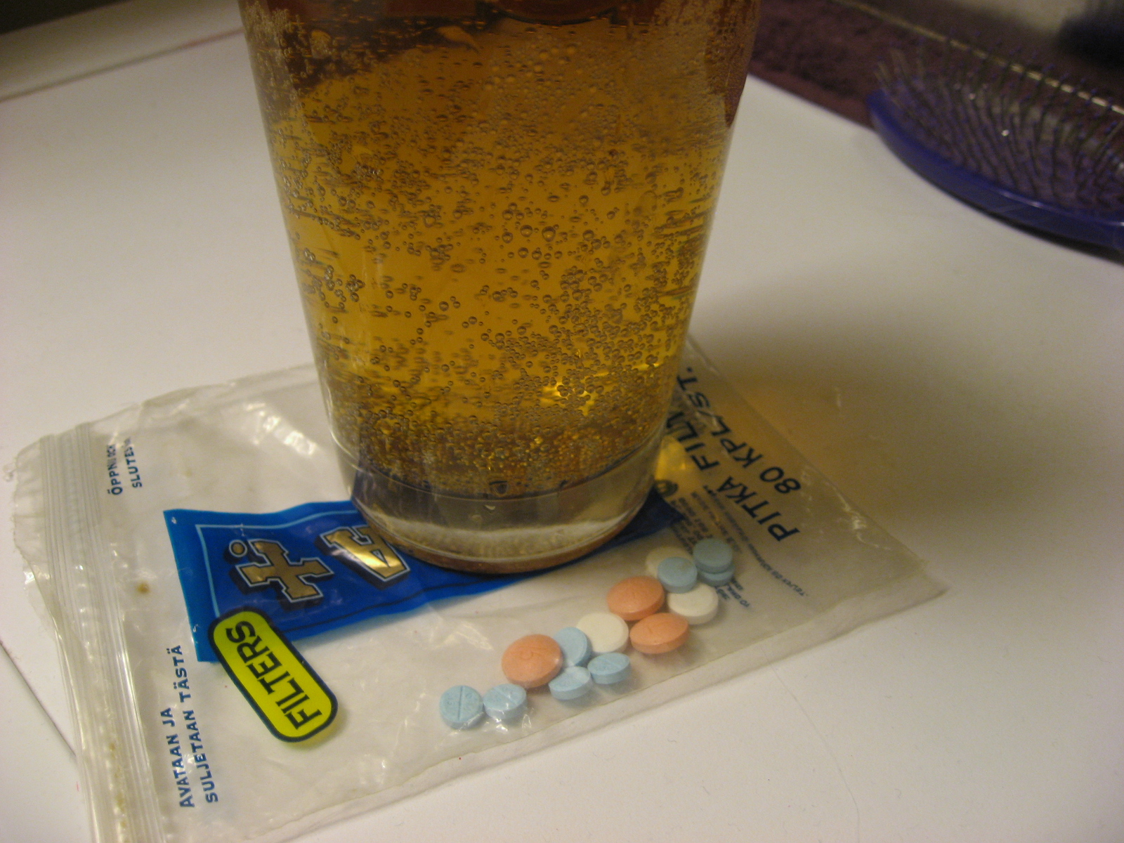 Poly drug use: tramadol 200 mg (brown), diazepam 10 mg (blue), temazepam 20 mg (white), and alcohol.